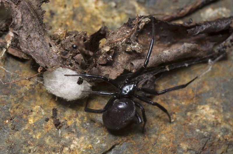 False Katipo spiderSteatoda capensis with egg sac